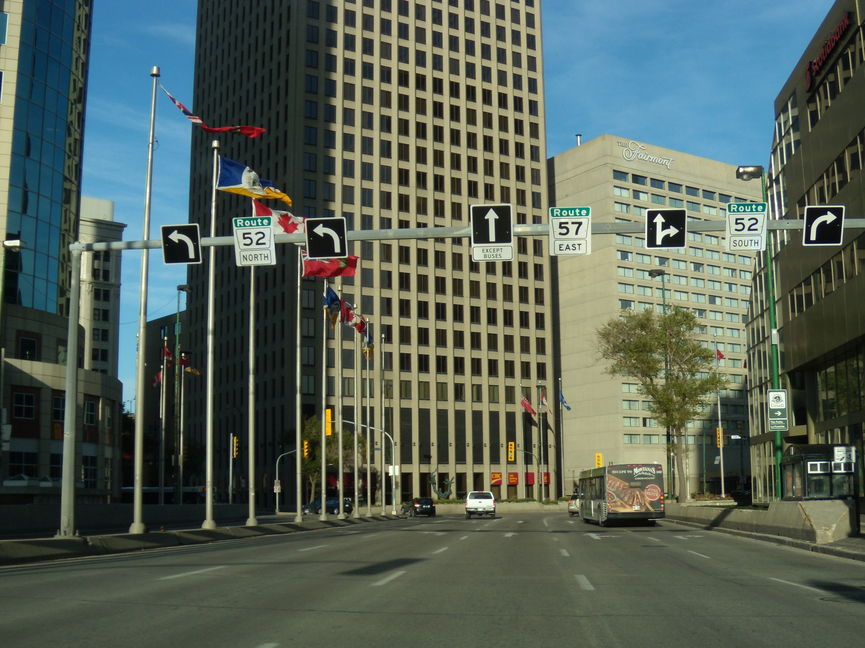 Winnipeg's intersection of Portage and Main as seen from Portage Ave Eastbound including lane signage